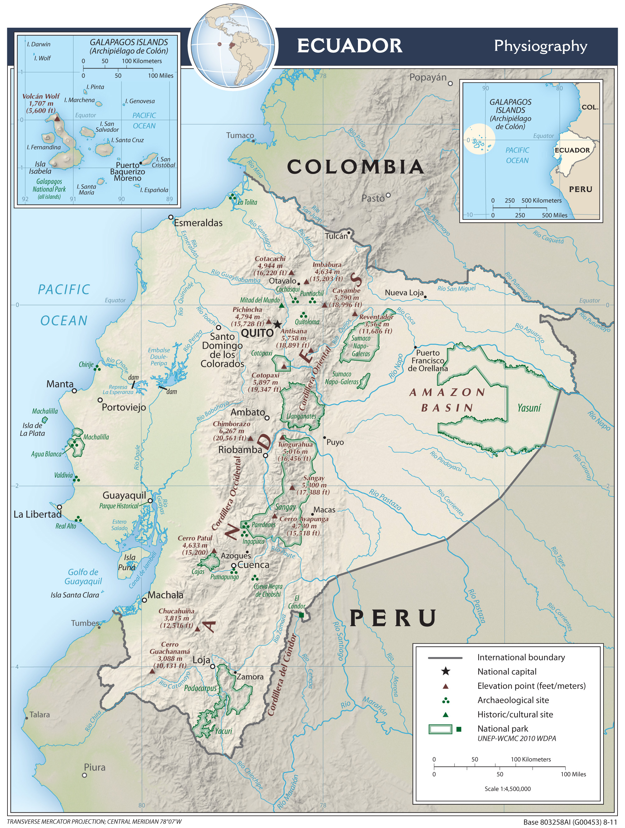 Topographic map of Ecuador (shaded relief), 2011.